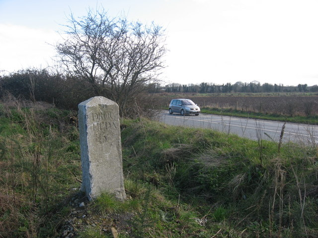 Milestone 18 at Gormanston